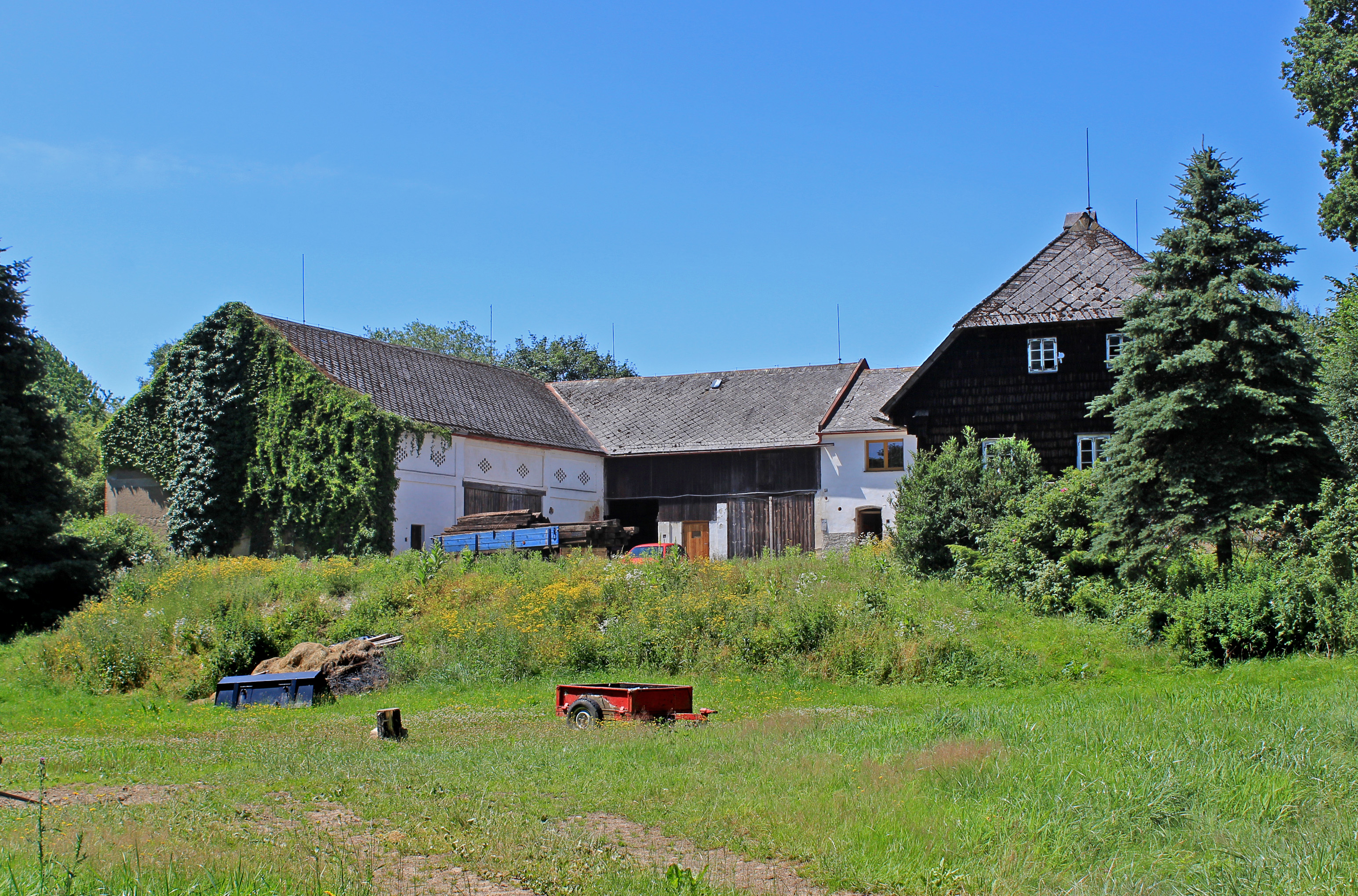 House No 15 in Šibanov, part of Poběžovice, Czech Republic.